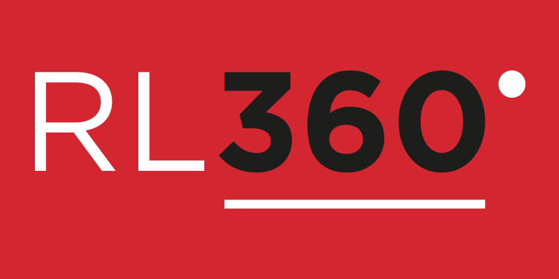 RL360 Insurance Company Limited logo